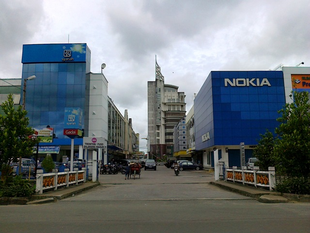 mal pontianak